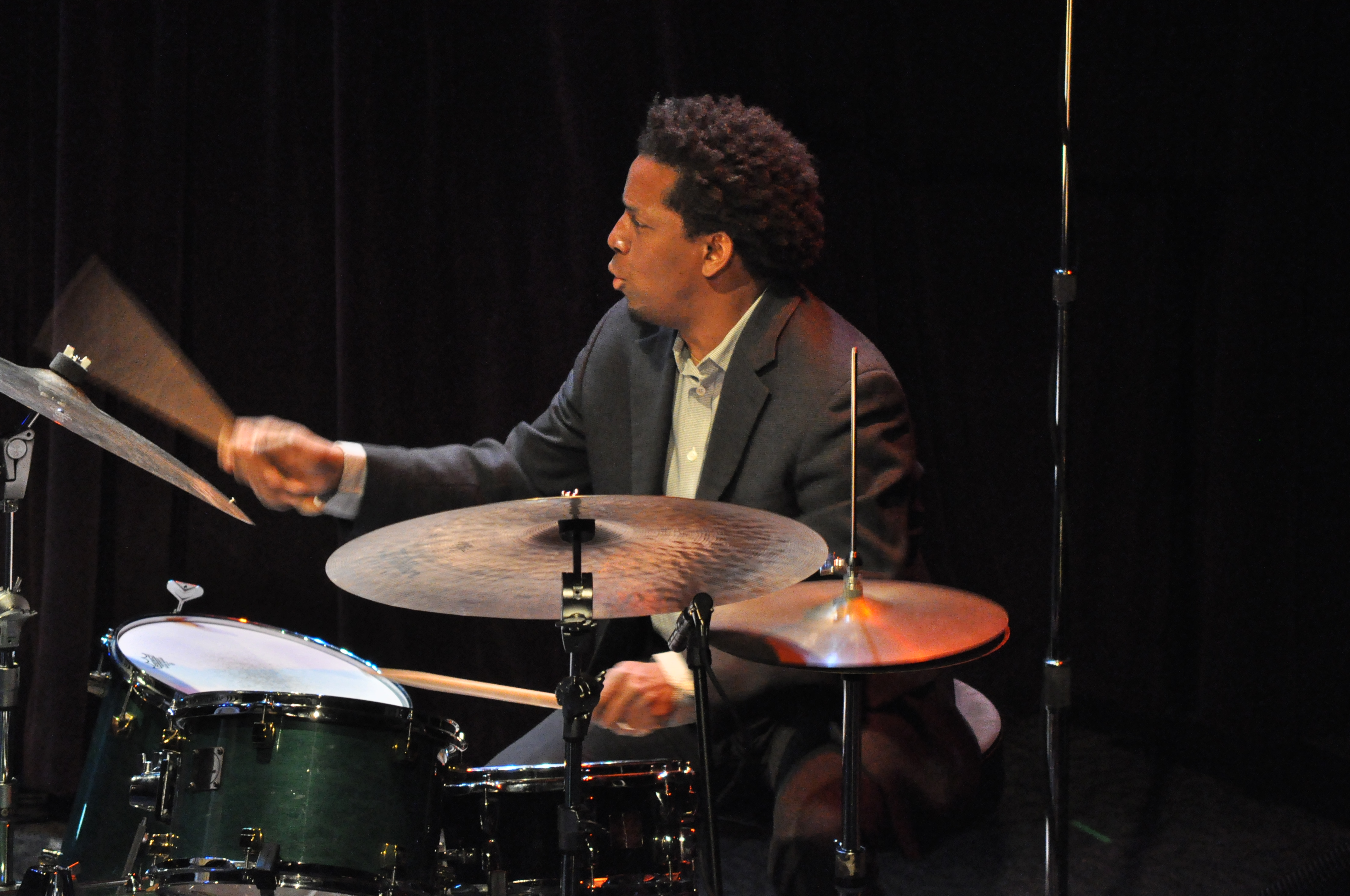 Drummer Francisco Mela playing with McCoy Tyner (not shown in this photo) at Jazz Alley, Seattle, Washington, USA.